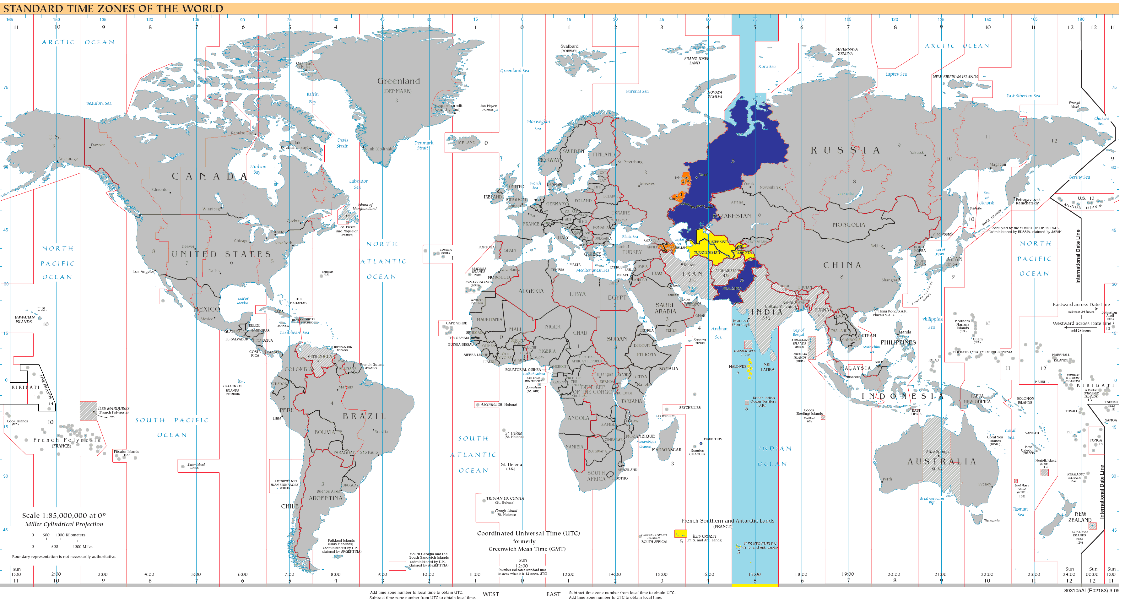 World map of time zones as of 2008, on the Miller Cylindrical Projection and with highlighted UTC+5 zone. Dark Blue - UTC+5 during Northern Winter / Southern Summer Orange - UTC+5 during Northern Summer / Southern Winter Yellow - UTC+5 all year round Light Blue - UTC+5 sea areas